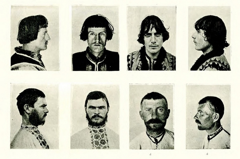 Male anthropological types of Ukrainians (the upper row is inhabitants of the Carpathians, the lower one is the steppe zone of Ukraine)